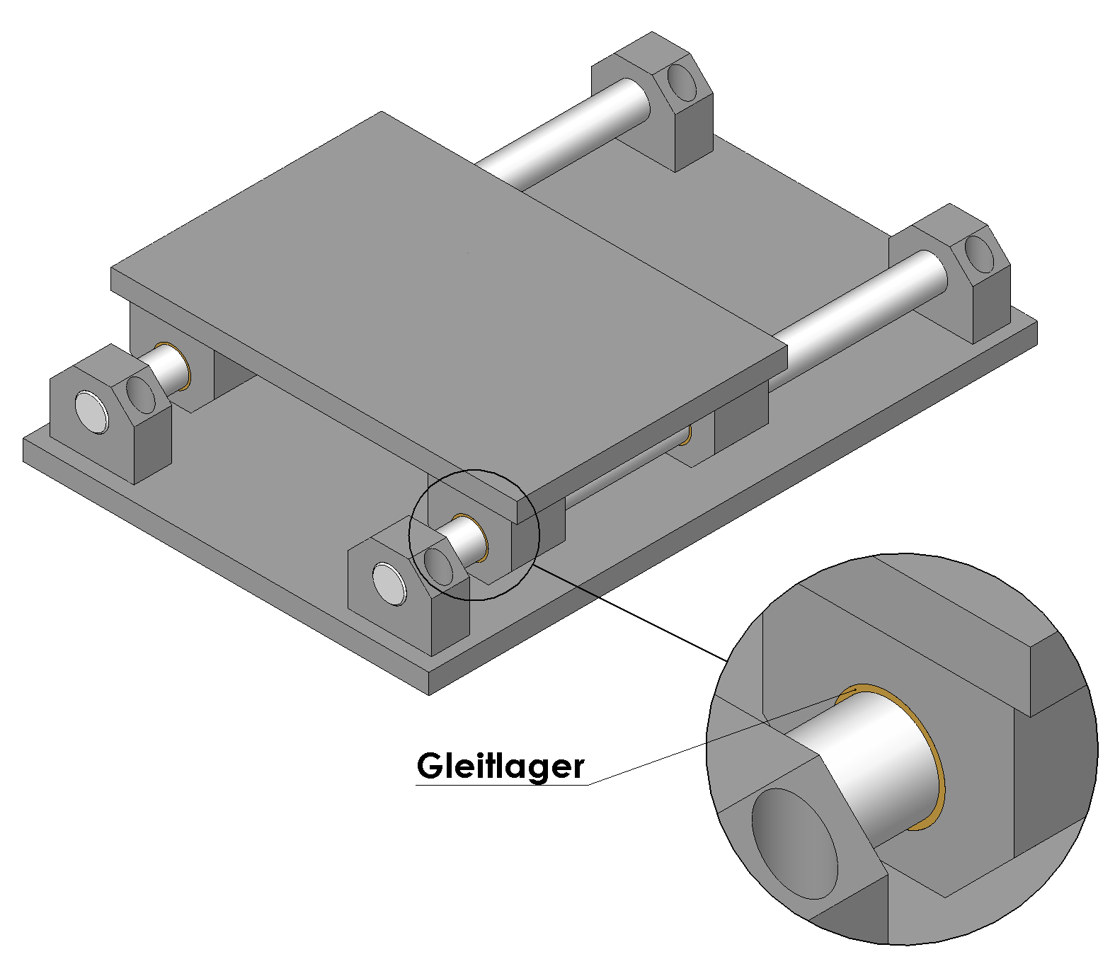 simplified linear table with round guide and guide bushing. German labeling.